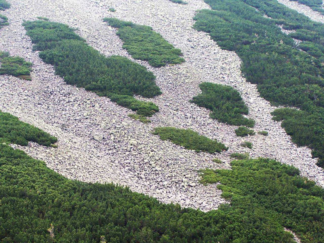 Suchy Wierch Tomanowy (Tatra Mountains - Pinus montana)